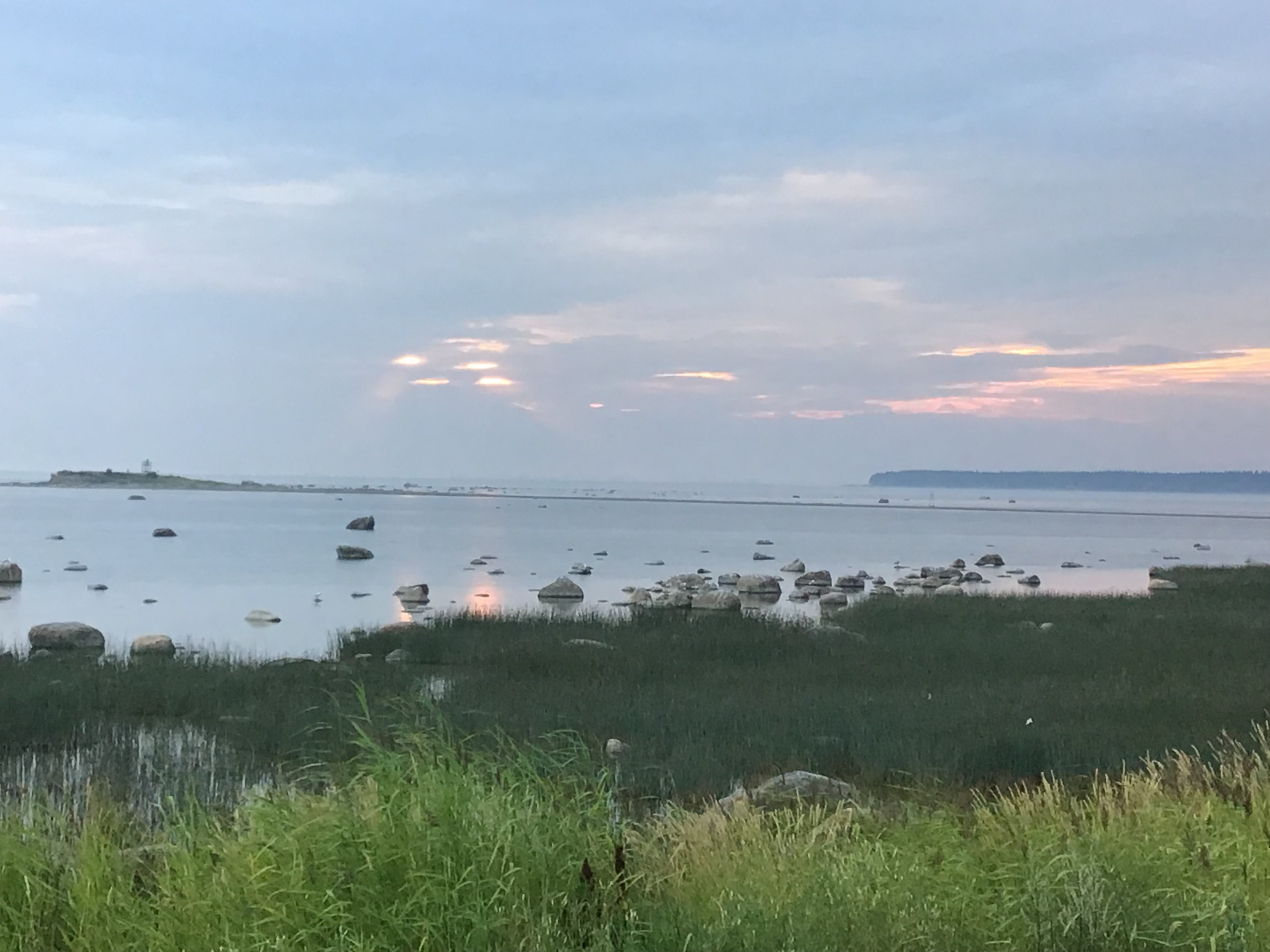 View from Püünsi Promenade, on the left small Pandju holm. July 20, 2018.